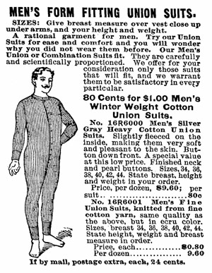 Advertising image of a union suit from the 1902 Sears, Roebuck catalog.